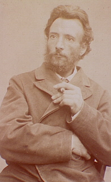 Portrait of Charles-Romain Capellaro